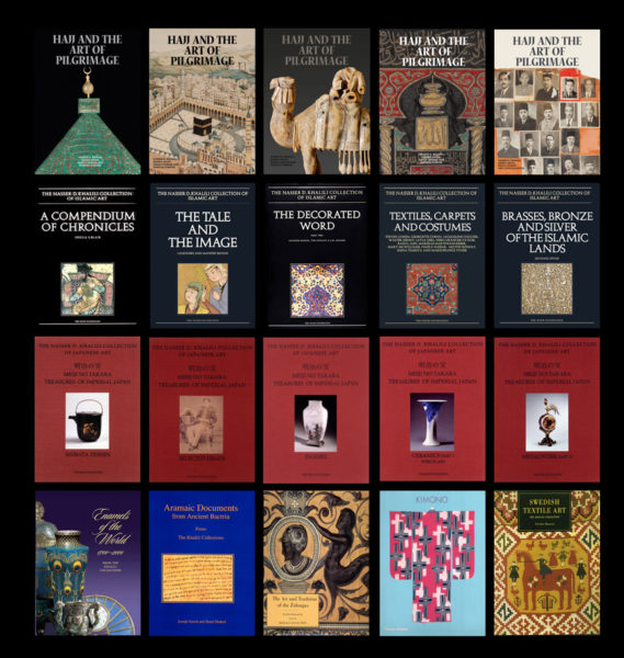 Book covers selected from the presently seventy-two catalogues and other books that have published about the Khalili Collections.The full list of publications is at